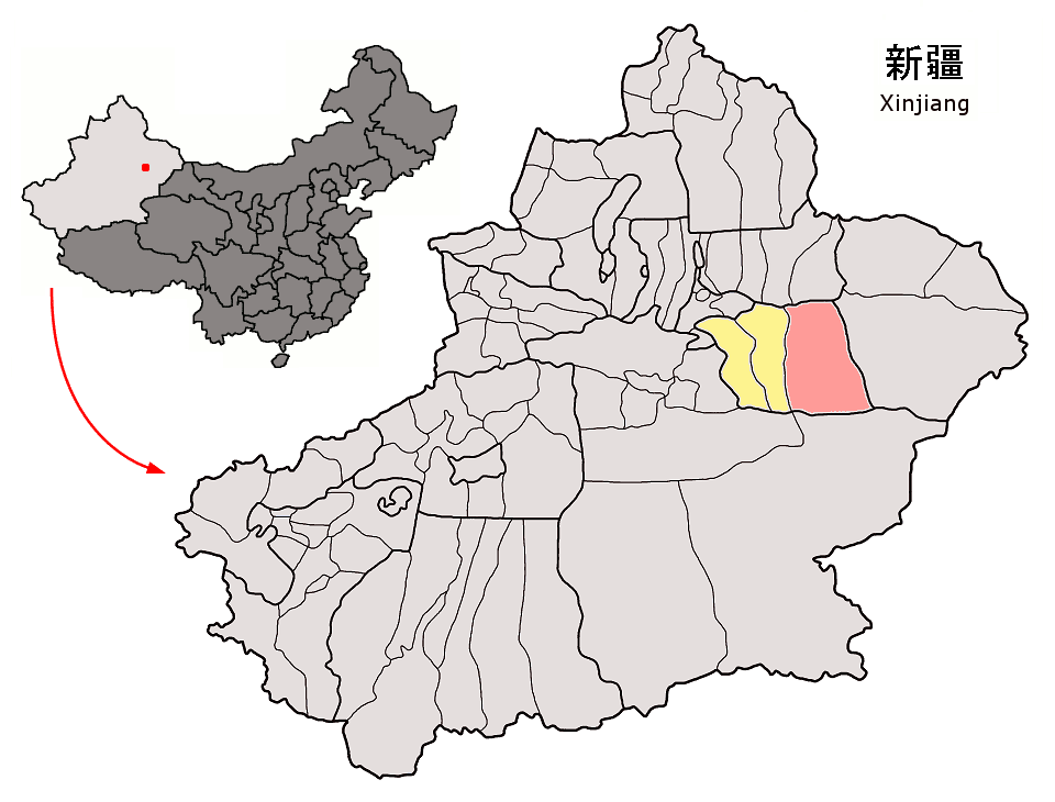 Location of Piqan County (pink) and Turpan Prefecture (yellow) within Xinjiang autonomous region of China Map drawn in september 2007 using various sources, mainly : Xinjiang Uygur autonomous region administrative regions GIS data: 1:1M, County level, 1990 Xinjiang Counties map from